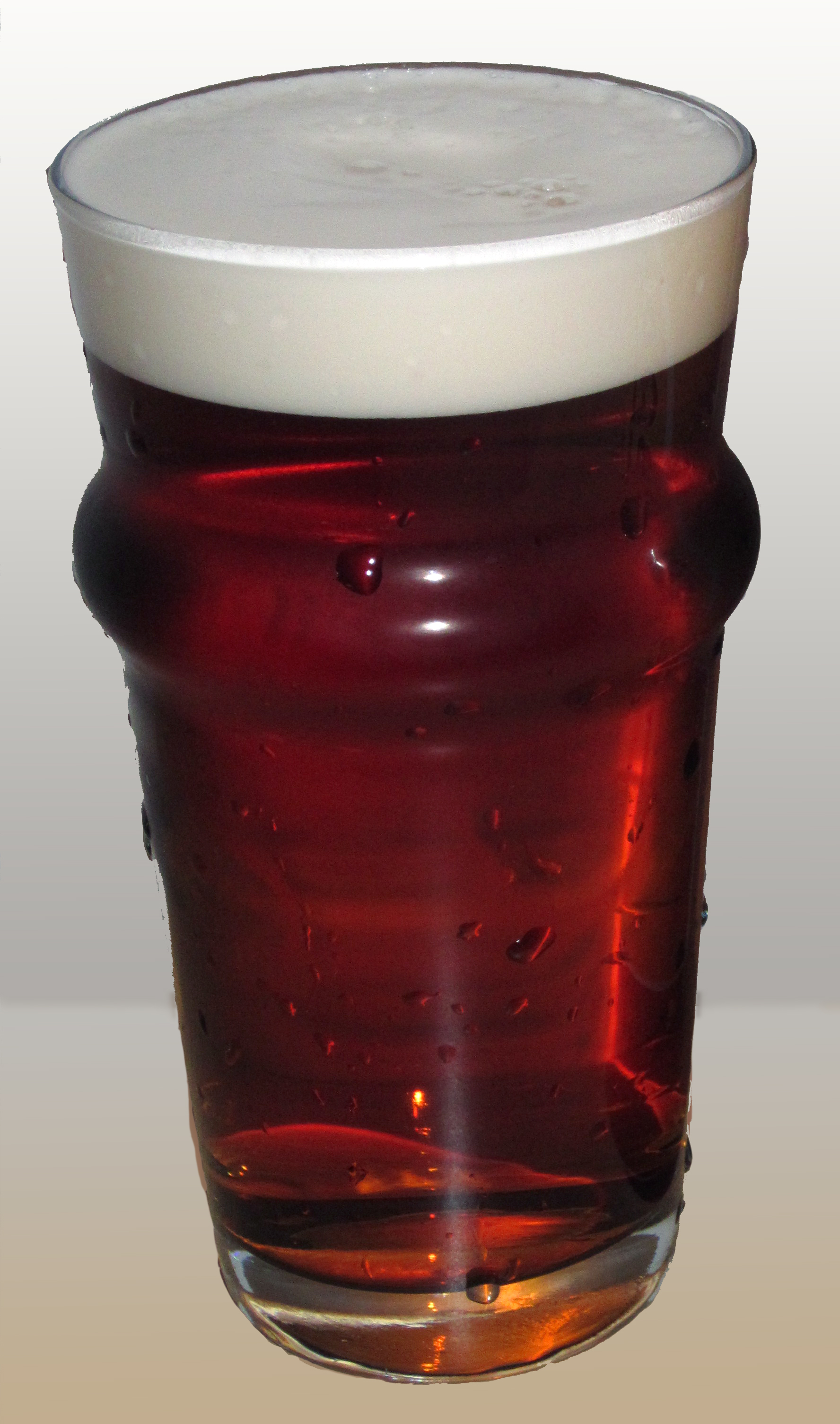 Pub Ale